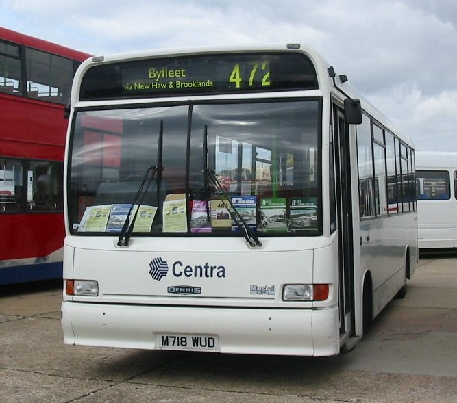 Centra's M718 WUD, a Dennis Dart/Marshall C37 at Showbus 2004.